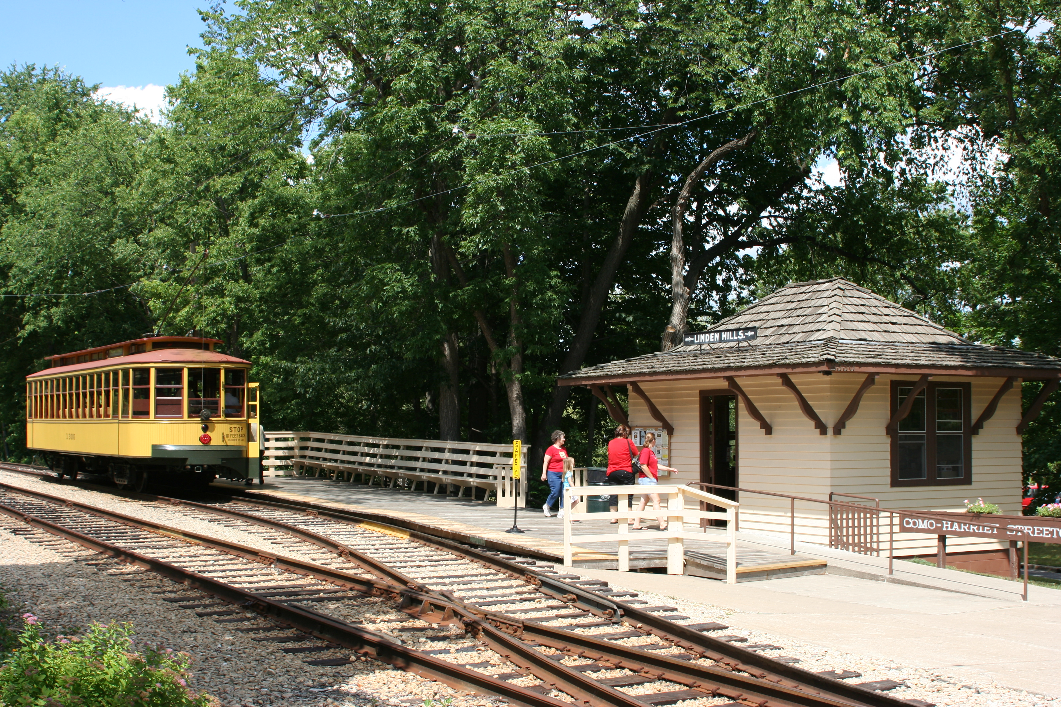 TCRT #1300 at the Linden Hills Depot, owned and operated by the Minnesota Streetcar Museum